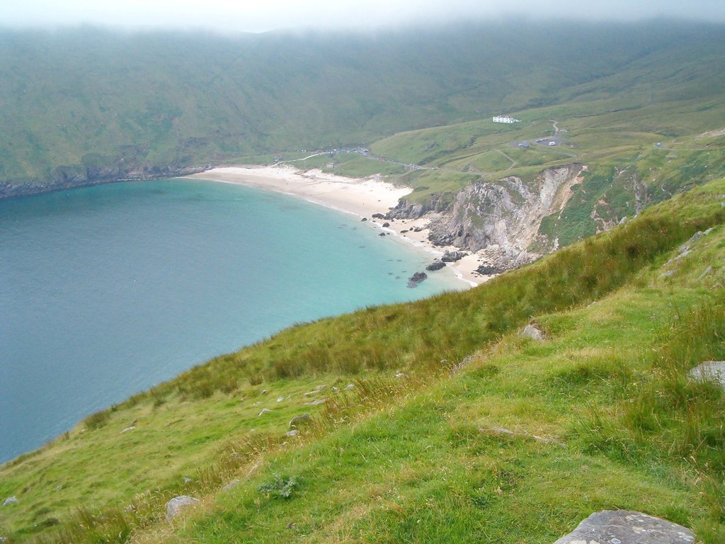 Achill Island (Irish; Acaill, Oileán Acla) in County Mayo is the largest island off Ireland, and is situated off the west coast.